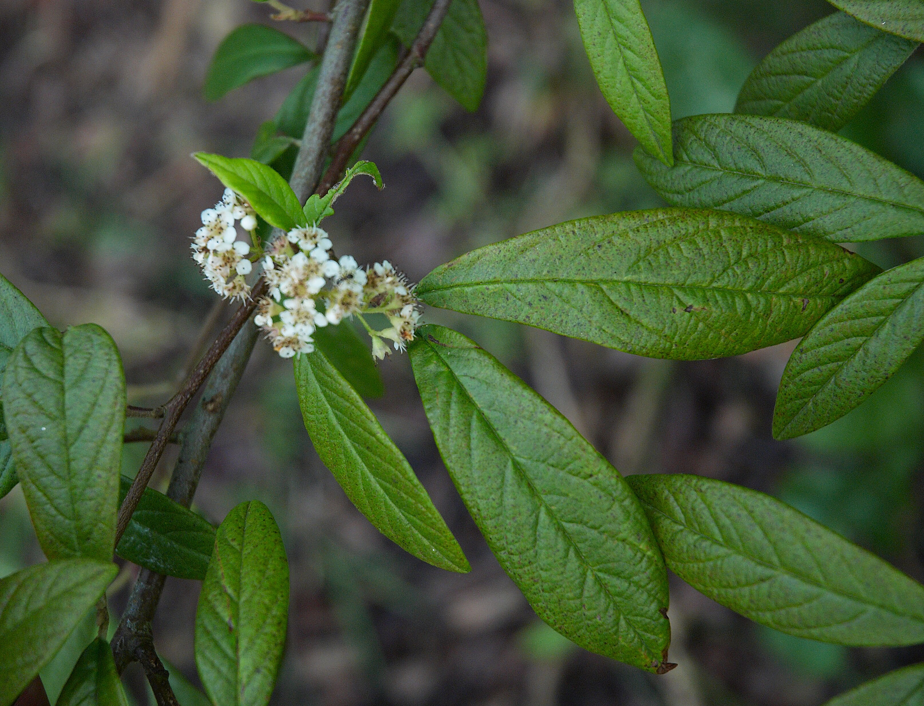 Cotoneaster 'Cornubia' possibly a hybrid of Cotoneaster frigidus and Cotoneaster salicifolius Photos of the same bush